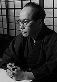 Hideji Hōjō (1902–96)